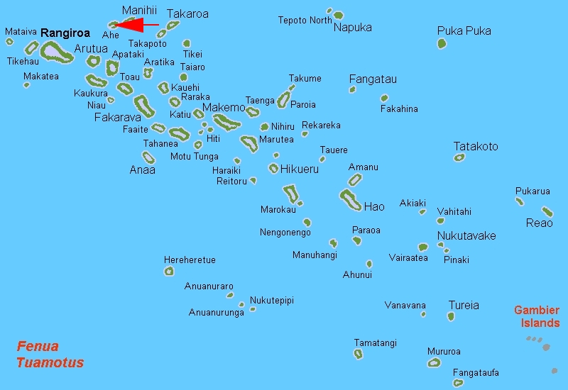 Ahe - Tuamotus Locator Map